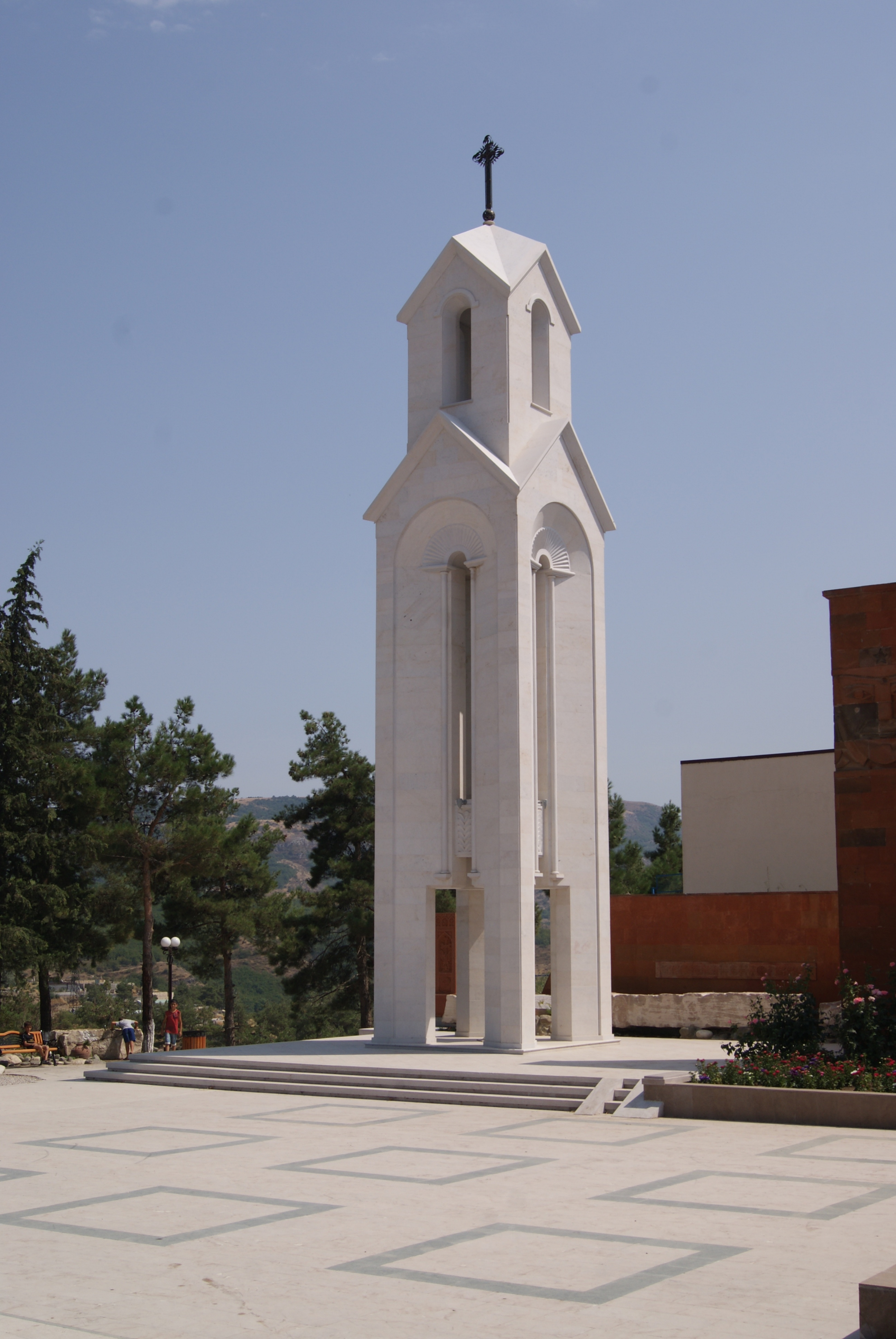 Armenian Genocide Memorial in Stepanakert